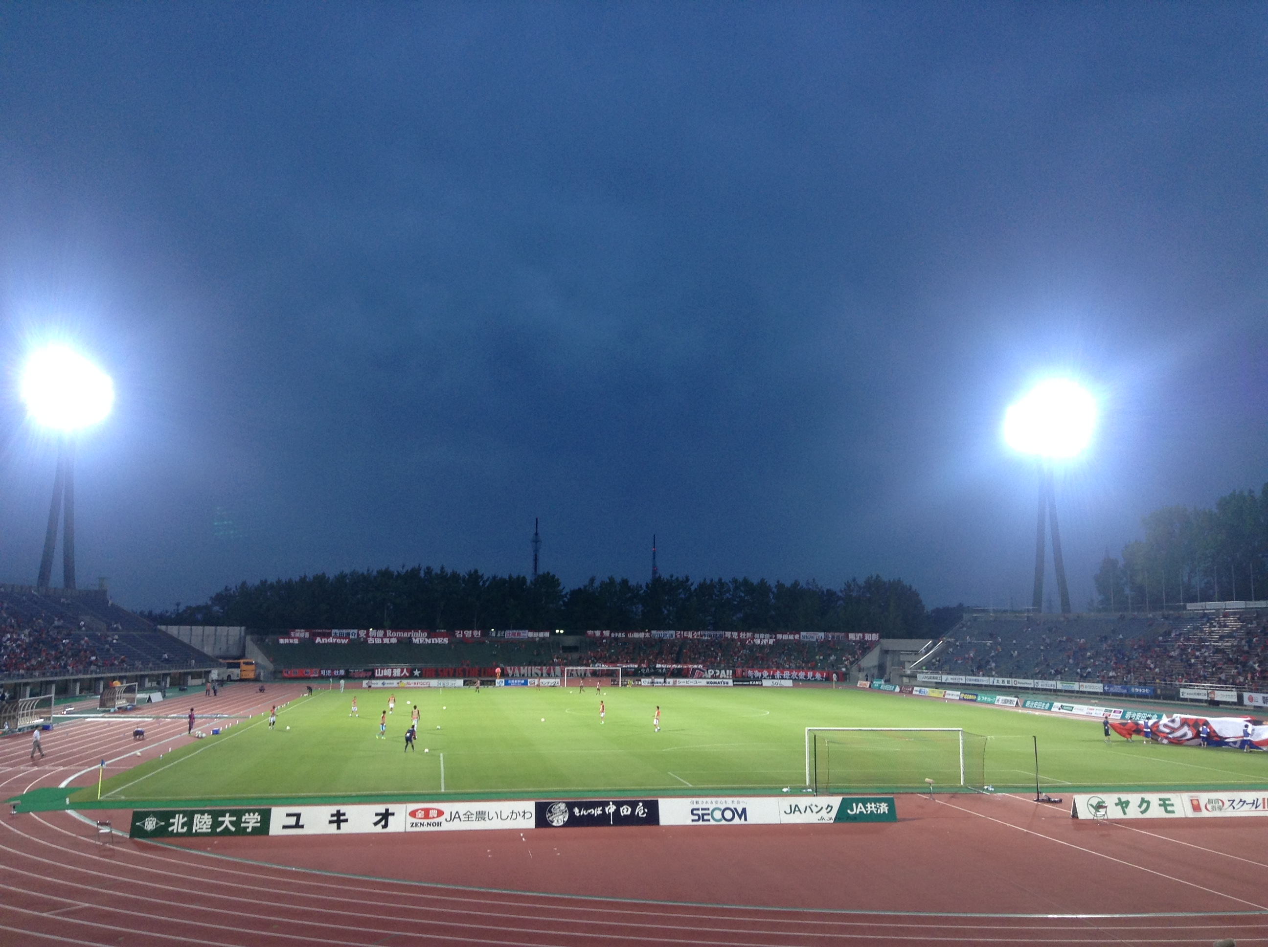 Ishikawa Athletics Stadium at the time of night game holding , J2 League , Zweigen Kanazawa vs Kyoto Sanga F.C., 4 June, 2016.